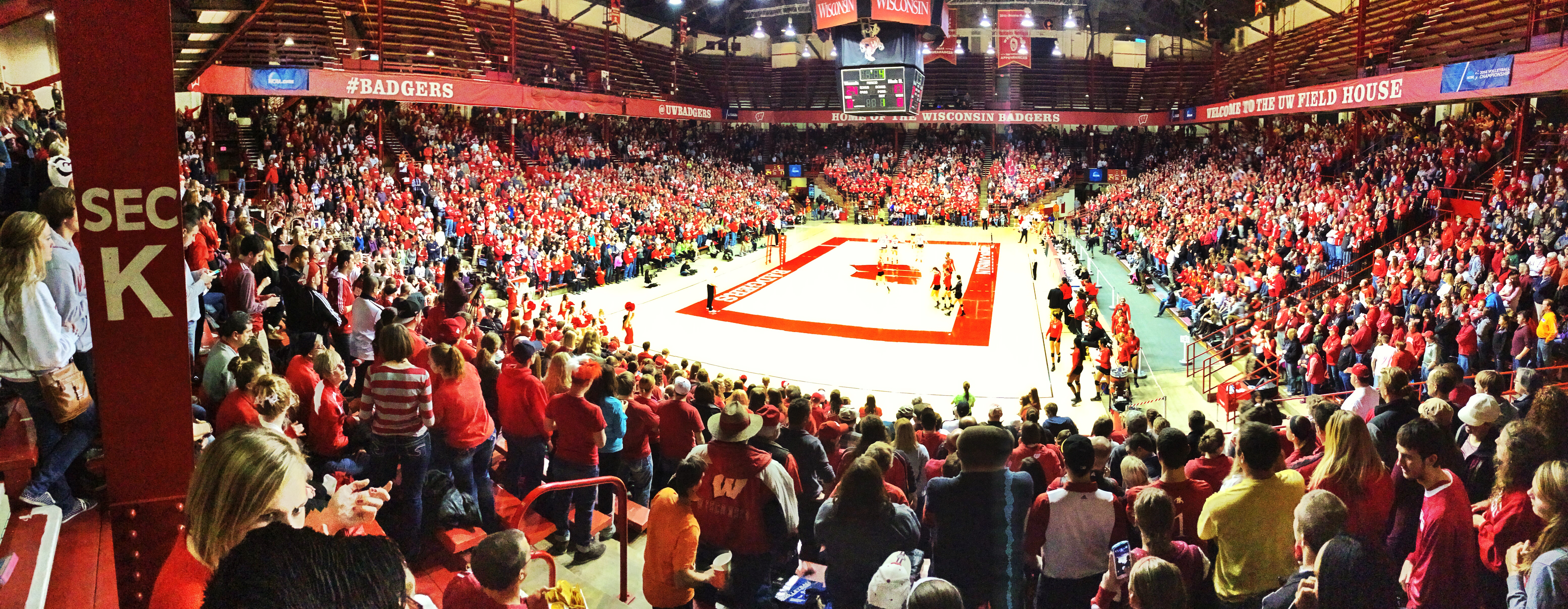 The NCAA Tourney game against Illinois St on 12/04/14 at the Wisconsin Field House